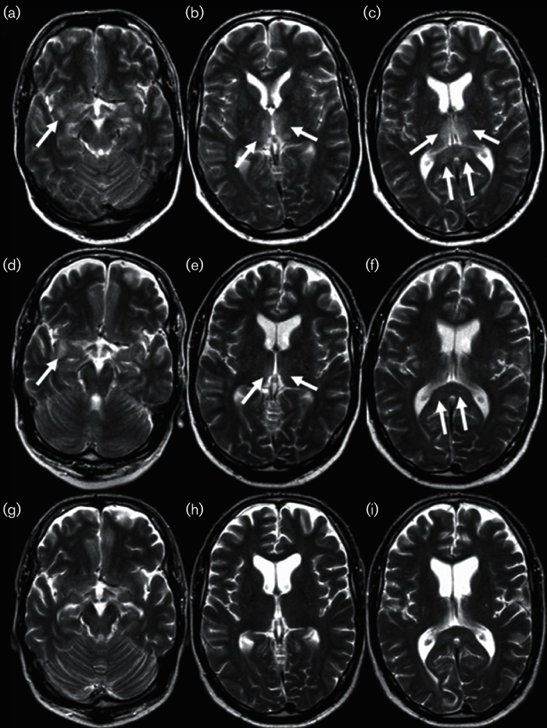 Influenza encephalitis MRI